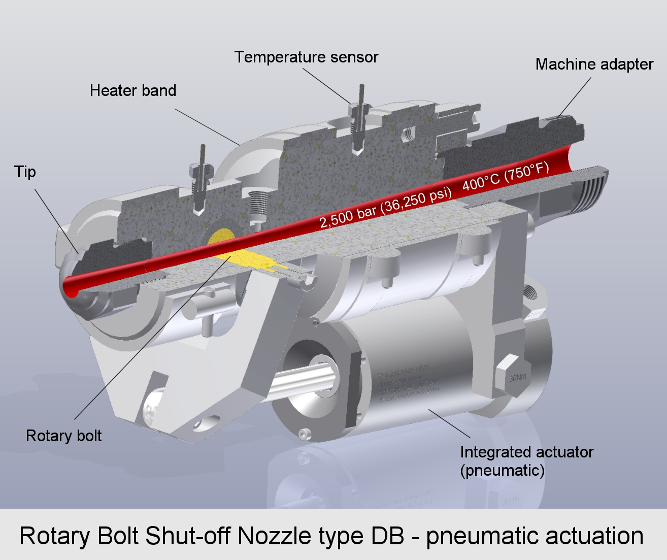 Rotary Bolt Shut-off Nozzle type DB - pneumatic actuation info